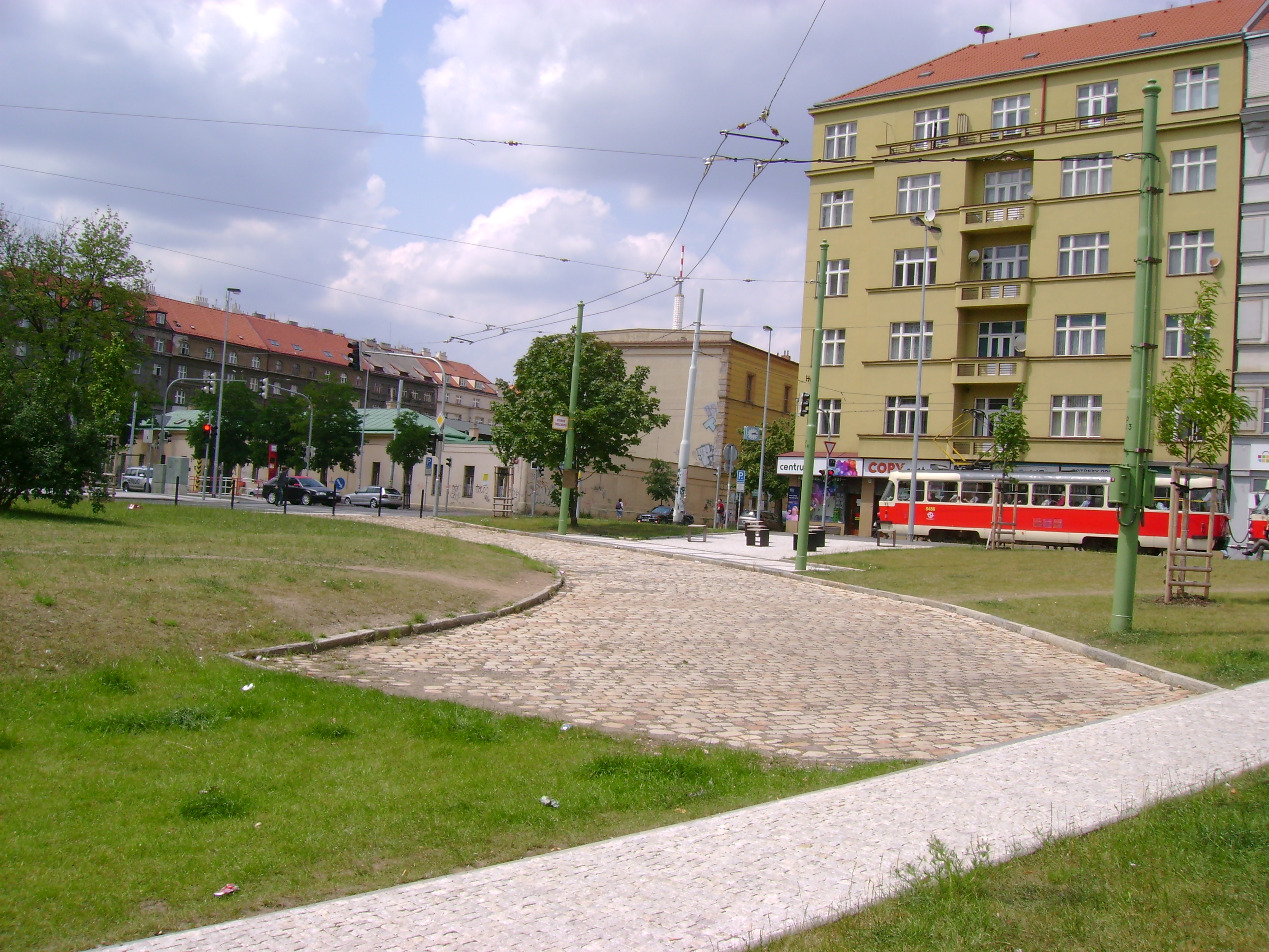 Trolleybus memorial at Orionka, Prague-Vinohrady, the Czech Republic.